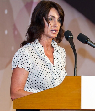 Nadia Comăneci in September 2010